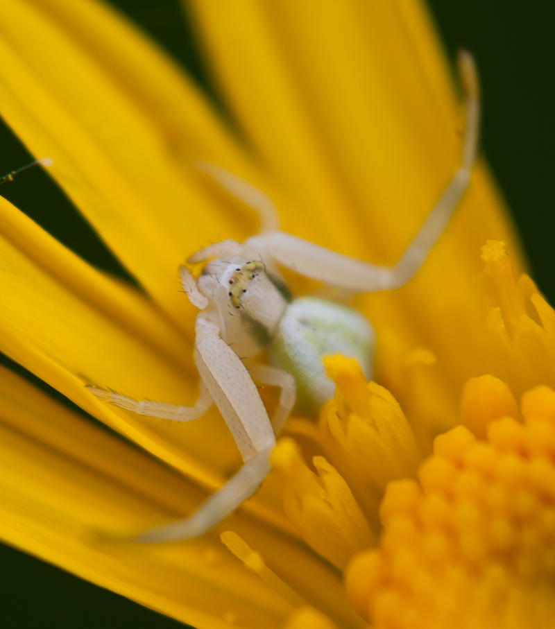 Runcinia grammica, Bastavales, Brión, Galicia (Spain) Determinada en Insectarium virtual por Jose Carrillo